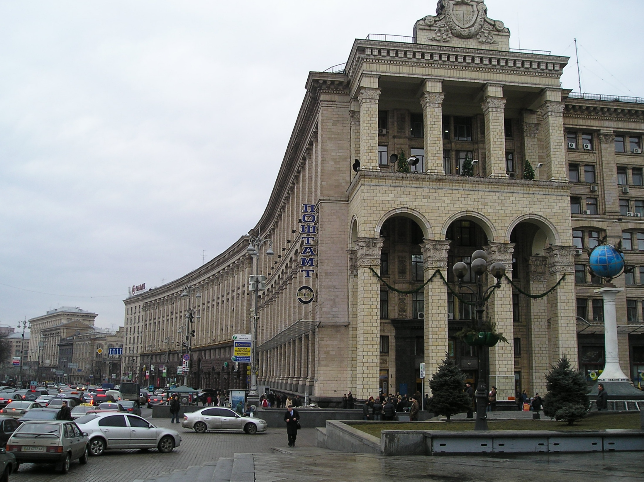 Ukraine.Kyiv.Chrestjatyk.“Administrative arc”